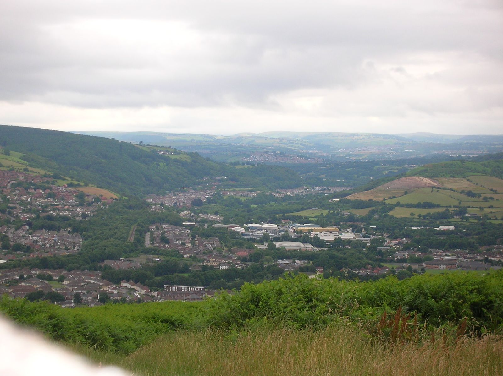 Rhymney, Panorama